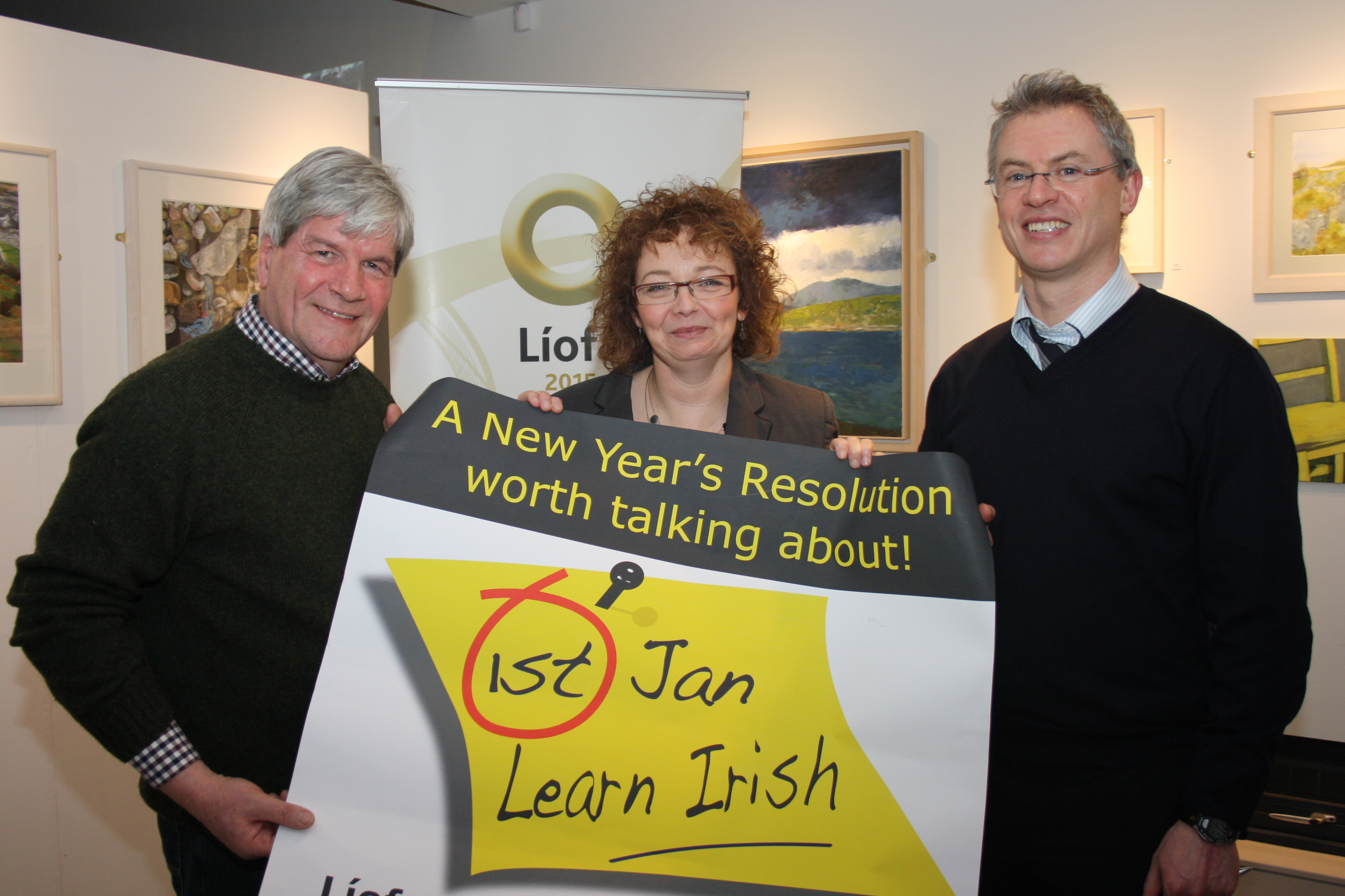 Joe McMahon, Carál Ní Chuilín and Joe Brolly celebrate Líofa